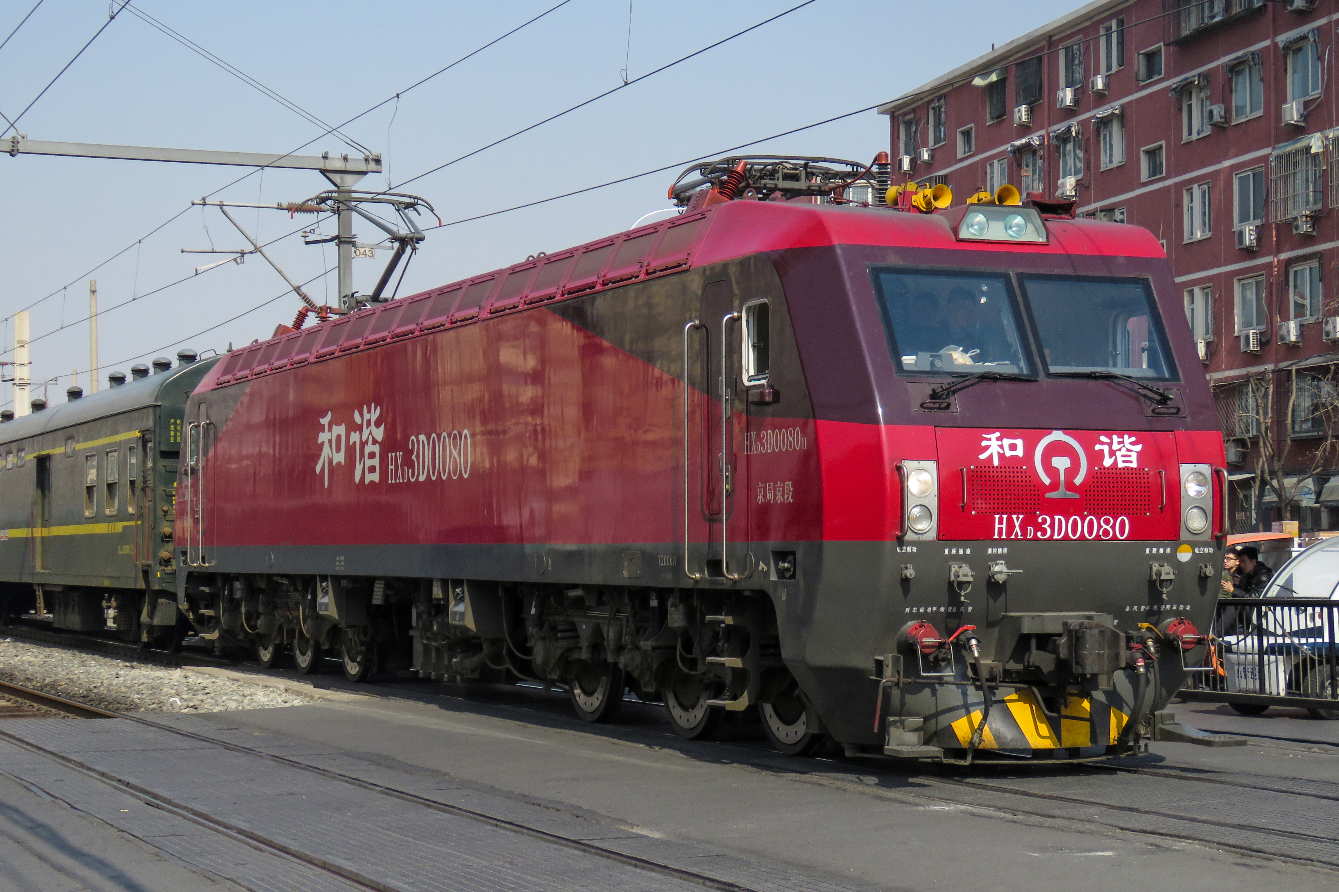 K1453 to Ganzhou, the first southbound train here with better illumination from this angle.